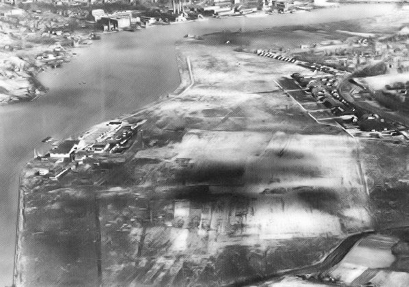 Bolling Field, District of Columbia, mid 1920s